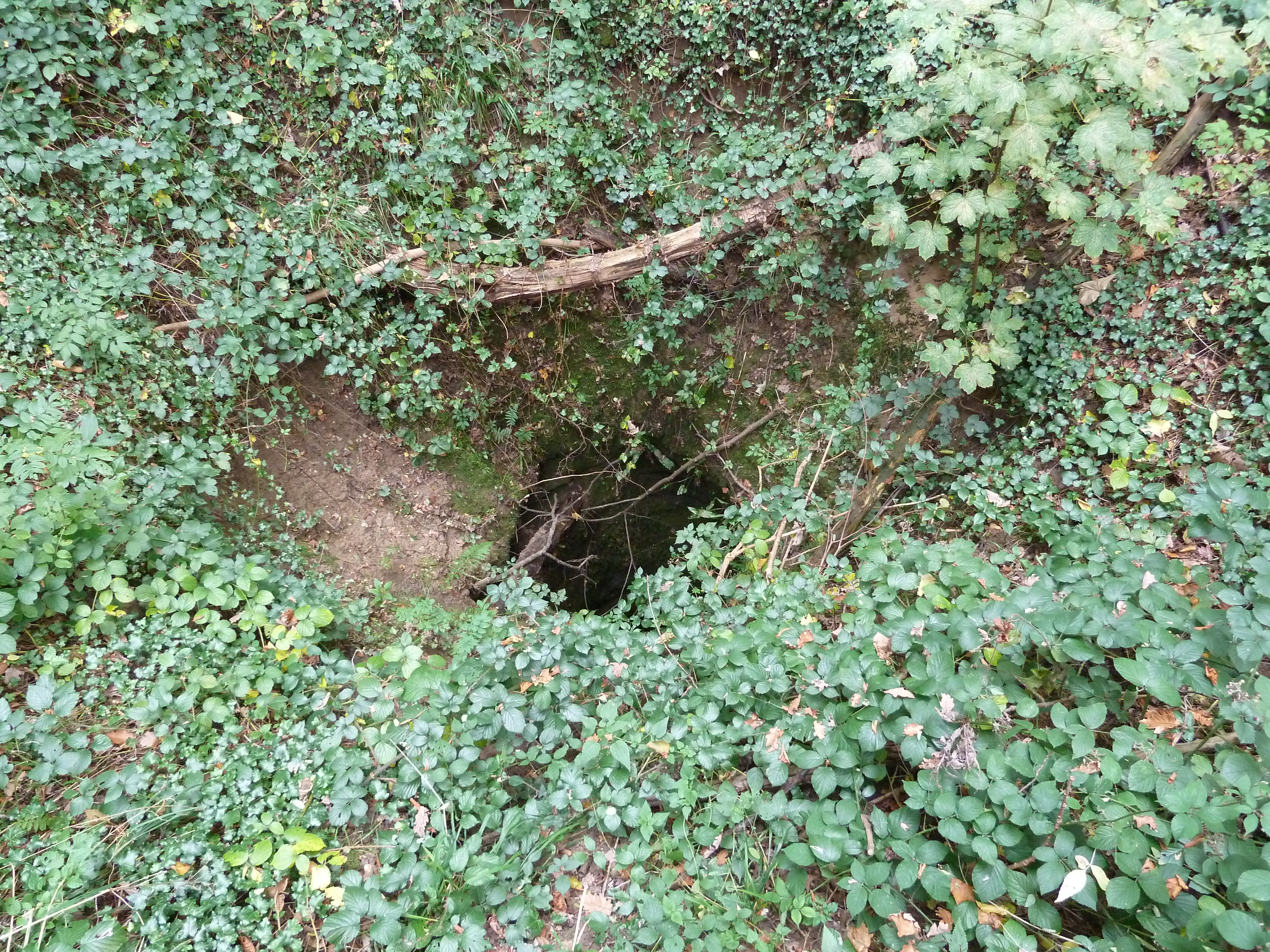 Henkeput in Savelsbosch, Limburg, the Netherlands